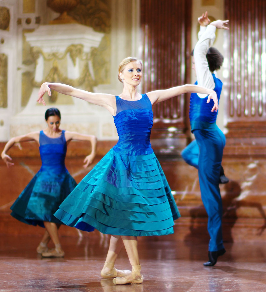 Vienna state ballet dancer Olga Esina and Roman Lazik and others perform during the the general rehearsal for the New Year´s Concert the ballet "Donauwalzer" in the Belvedere on January 1, 2012 in Vienna. f0.95